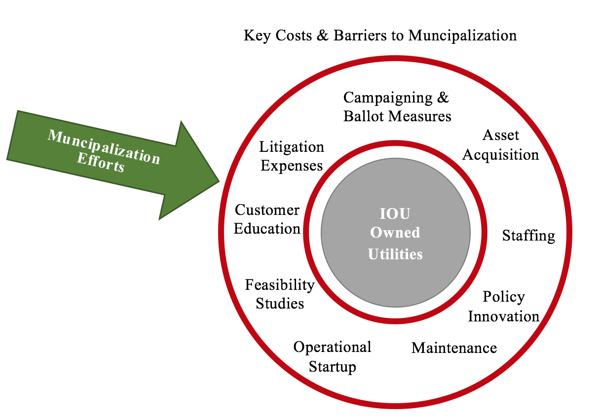 Shows the key costs to Municipalization